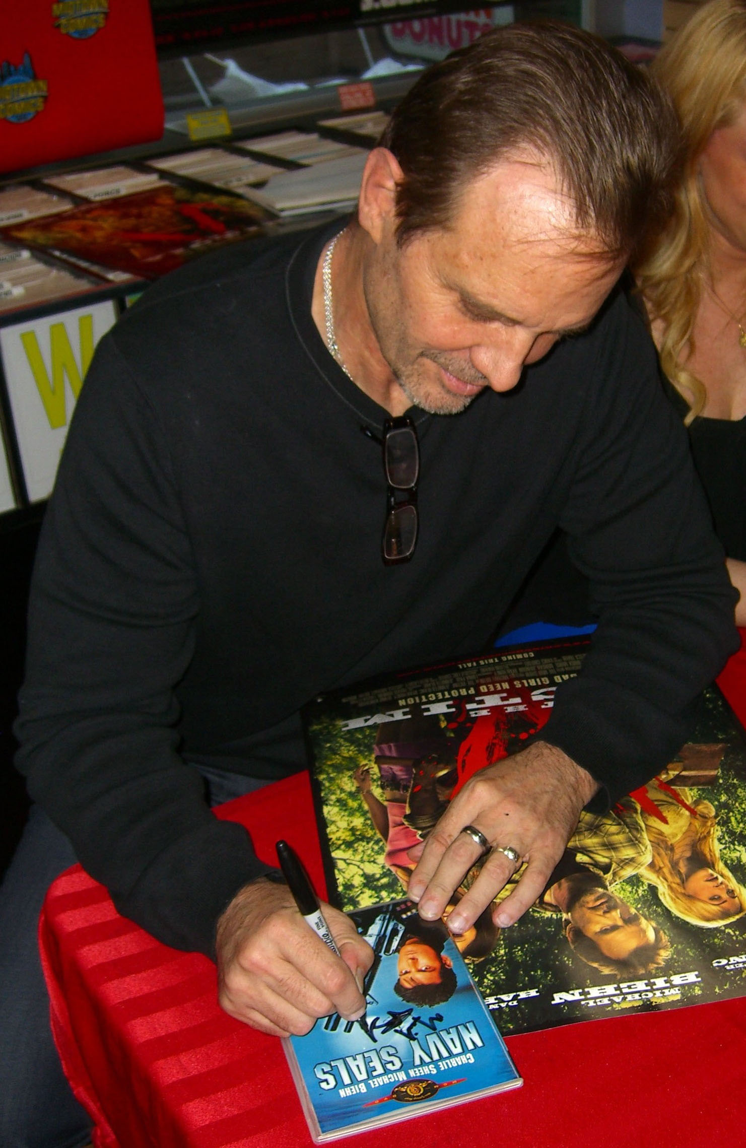 Actor/director Michael Biehn (The Terminator, Aliens, The Abyss) and his wife, actress Jennifer Blanc, at an August 23, 2012 appearance at Midtown Comics Downtown in Manhattan to promote Biehn’s directorial debut, the horror film The Victim, in which both Biehn and Blanc star. In the photo, Biehn is signing the DVD cover of the 1990 film Navy SEALs, in which Biehn starred. This photo was created by Luigi Novi. It is not in the public domain, and use of this file outside of the licensing terms is a copyright violation.